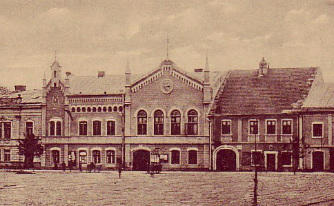 Sanok main market square